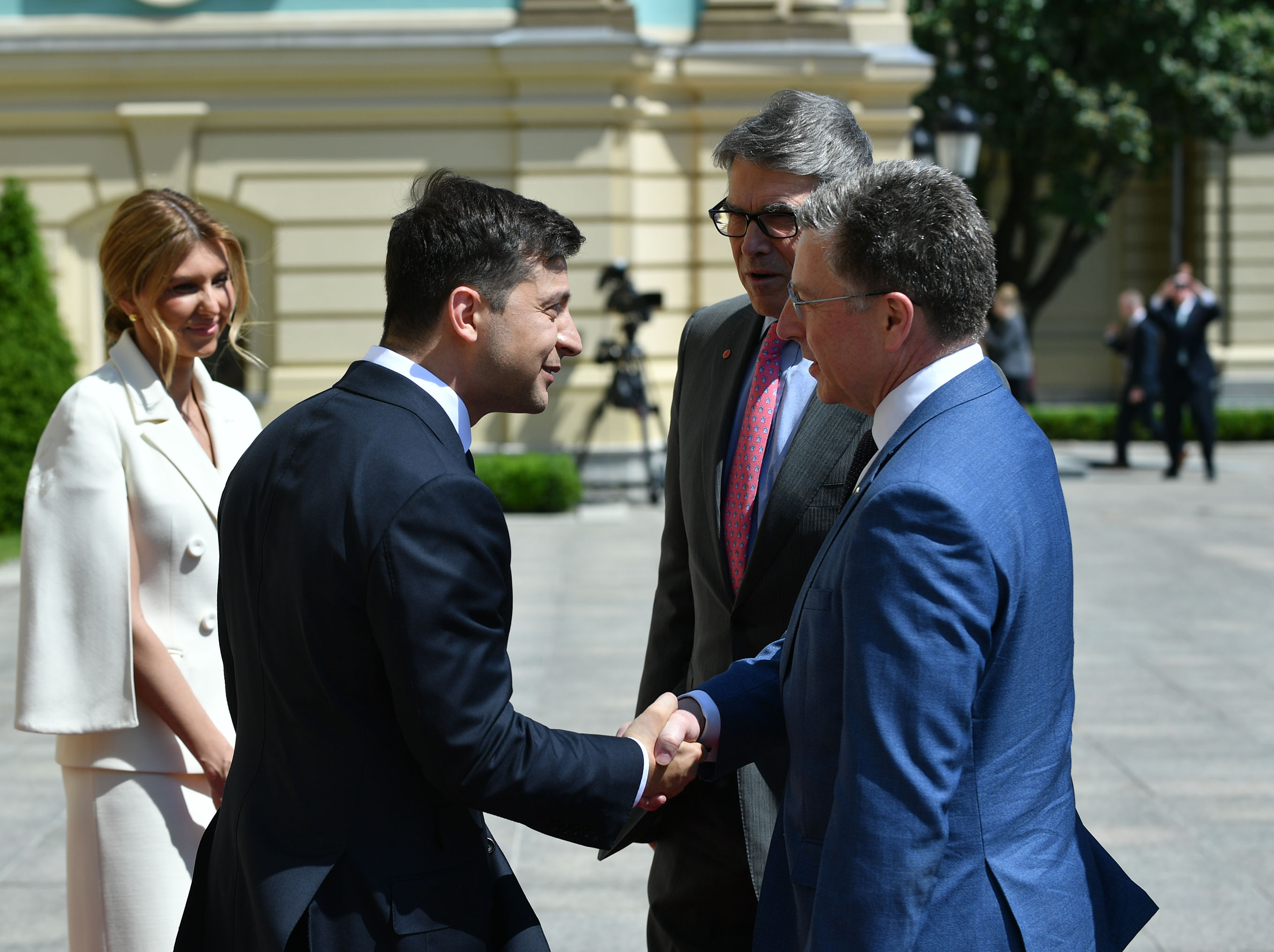 Volodymyr Zelensky presidential inauguration, 20th May 2019. Left-to-right: Olena Zelenska, Volodymyr Zelensky, Rick Perry, Kurt Volker.